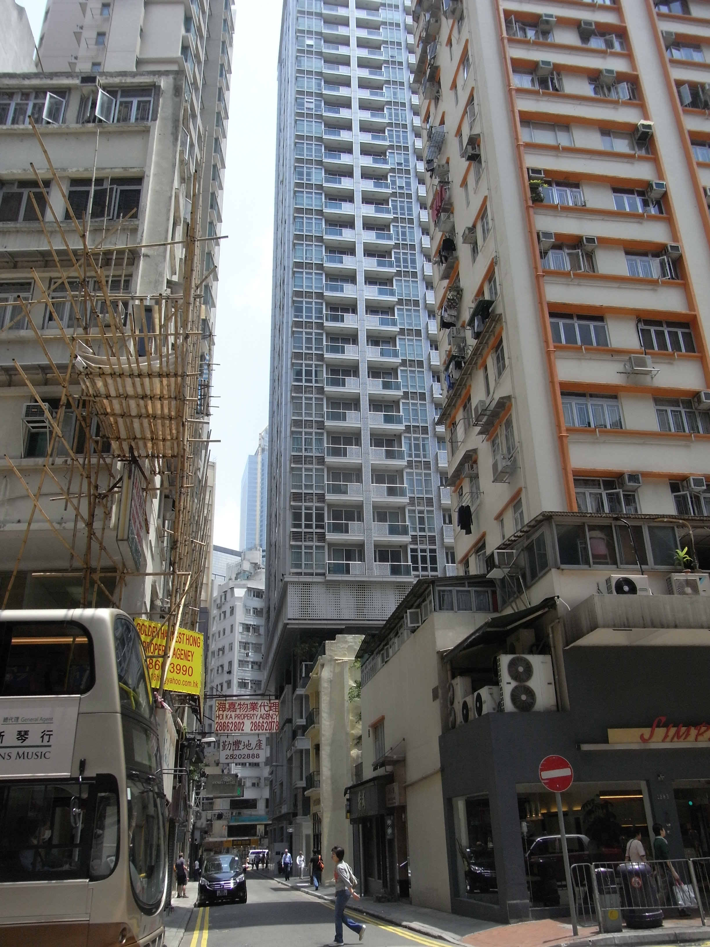 灣仔 皇后大道東 遠望船街 嘉薈軒